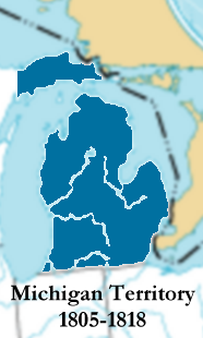 Map of Michigan Territory from 1805 until 1818; created October 2004 by Jengod.